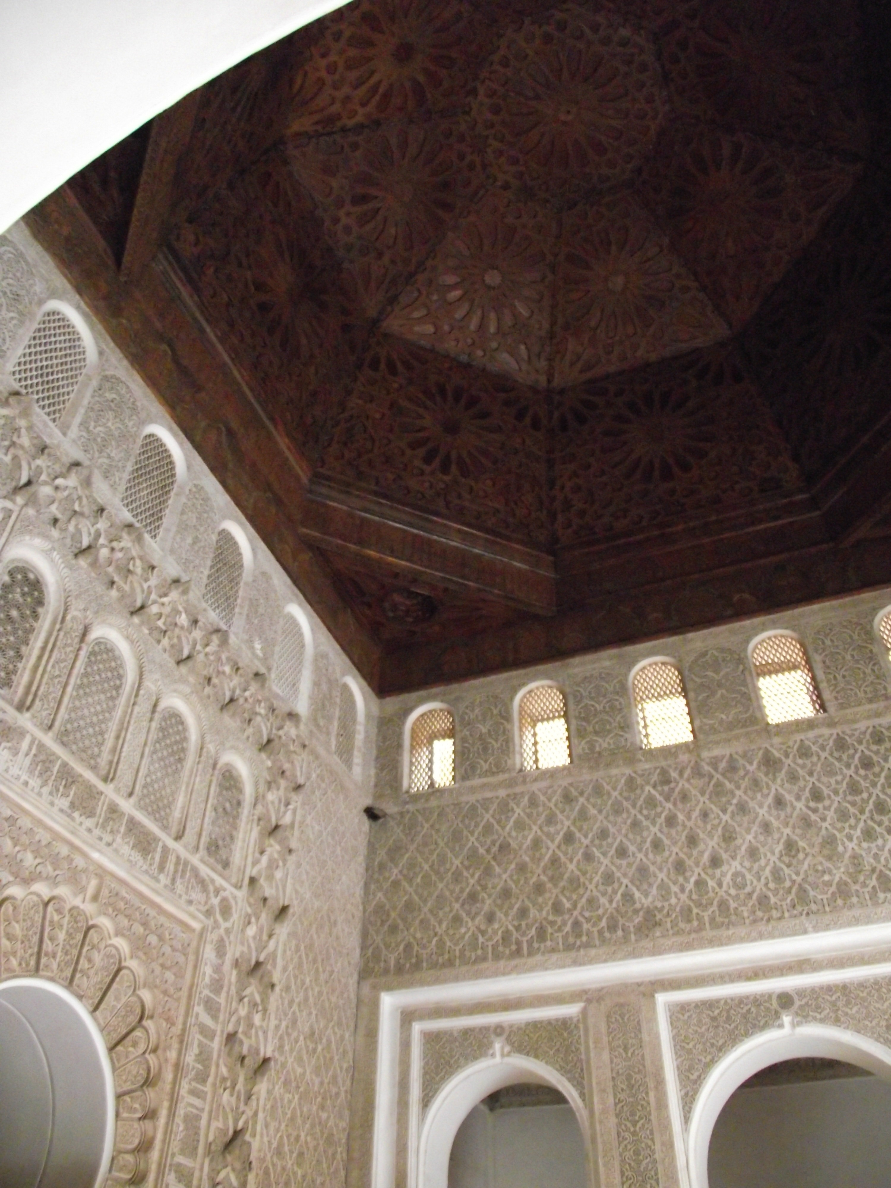 Marrakech, Ben Youssef Madrasa, Preyer Hall